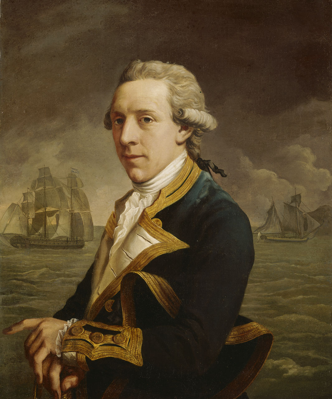 A half-length portrait to left in captain's (over three years) full-dress uniform 1774-87. Mann wears a white wig with black ribbon visible and holds his hat under his arm. In the background a British frigate flying the Union flag, on the left, is shown in the act of taking a small French schooner on the right.